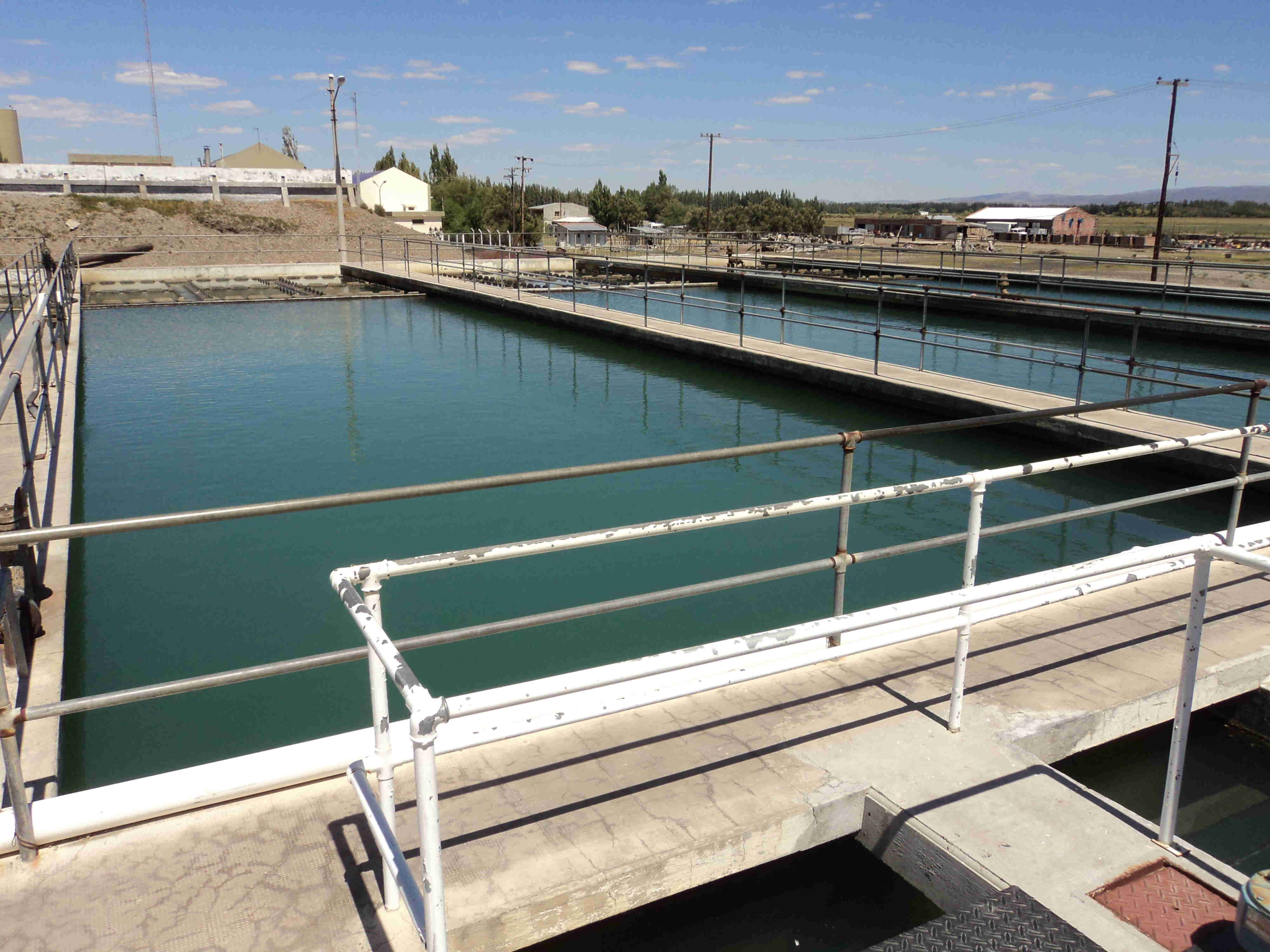 Decantadores de flujo convencional - Planta potabilizadora Acueducto Antiguo